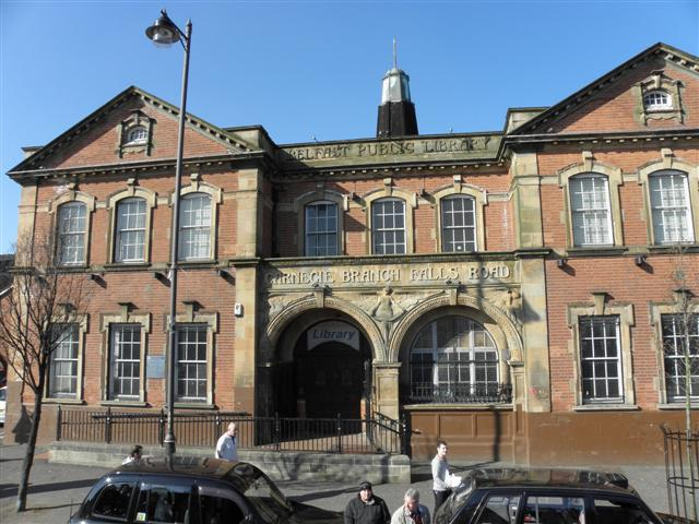 Belfast Public Library Carnegie Branch Falls Road